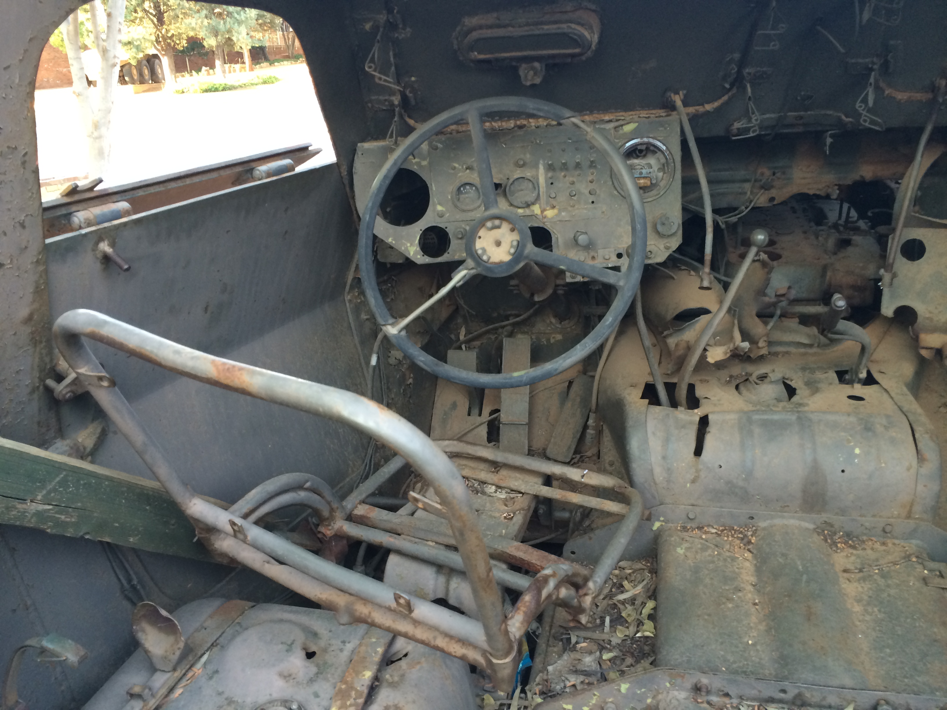 Behind the wheel of a Soviet-manufactured BTR-152 late of the Armed Forces for the Liberation of Angola (FAPLA). Taken at the South African Armour Museum, Bloemfontein. 2014.